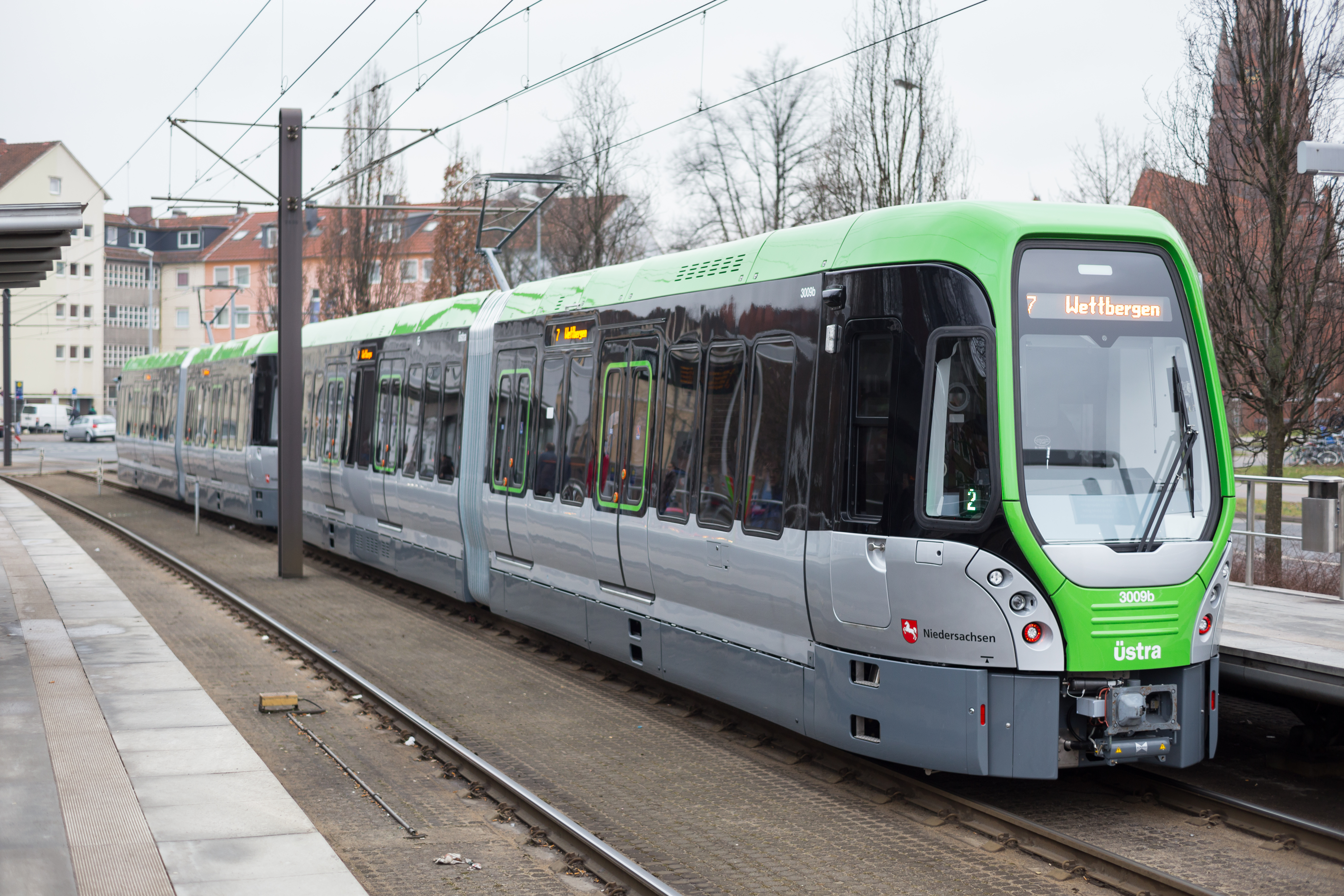 Tram train type TW 3000 of uestra transportation company during its first commercial service on March 15, 2015. The image shows the train while waiting at "Allerweg" stop located in Linden-Sued district of Hannover, Germany.